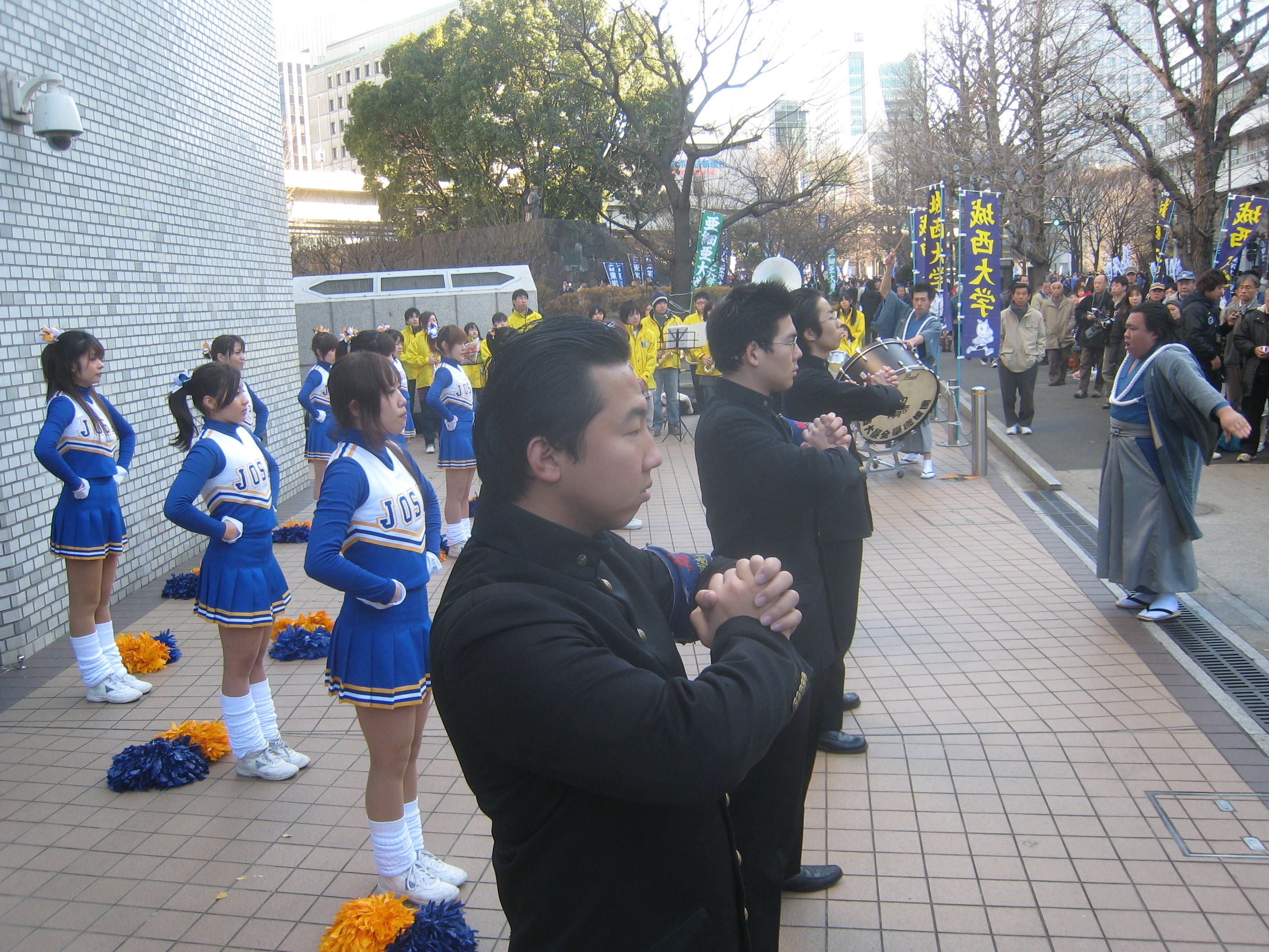 A university cheer squad holds a rally for their ekiden team at the Hakone Ekiden in Tokyo.